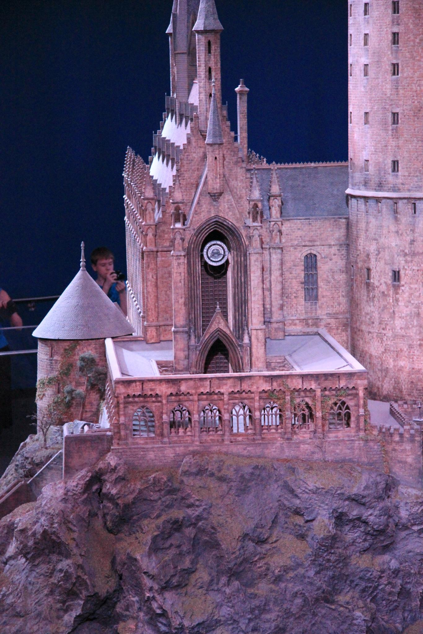 Warner Bros. Studio Tour London: The Making of Harry Potter.